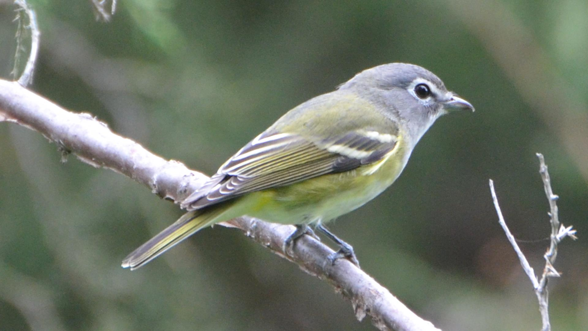 Tower Grove Park in St. Louis Missouri on 10/14/12